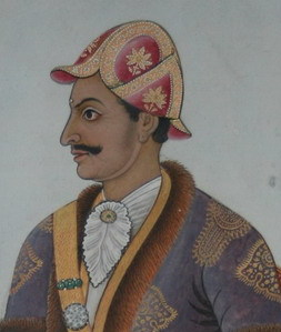 Miniature portrait painting of Prime Minister Bhimsen Thapa (1775-1839) of Nepal, dated 1839, Nepal. Opaque watercolour with tooled gold on wasli. Size: 32.7 x 24.8cm. The inscription reads (transliteration and translation) as shri janaral kamandar in cheef bheem sen thapa ka 63 varshko samwat 1896 saal maa khaichiya ko (Shri General Commander-in-chief Bhimsen Thapa, aged 63 years, painted in Samwat 1896 [1839 AD]). The title given to him, instead of prime minister, refers to his position when declaring war on the British as commander-in-chief. This portrait produced in the year of his death seems most likely to be in commemoration of him. The portrait must have served patronage for nostalgia by showing him in his prime. The painting is currently in the private collection of Peter Blohm.